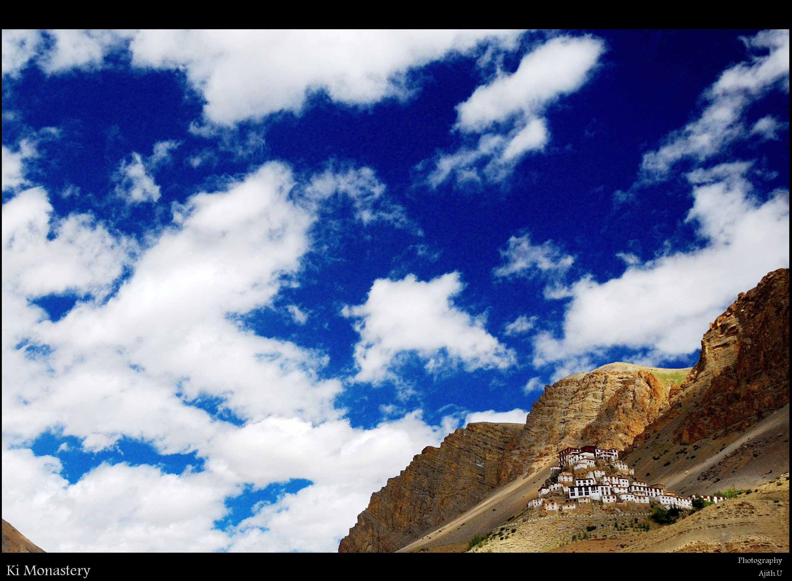 Key Gompa (also spelled Ki, Kye or Kee) is a Tibetan Buddhist monastery located on top of a hill at an altitude of 4,166 metres (13,668 ft) above sea level, close to the Spiti River, in the Spiti Valley of Himachal Pradesh, Lahaul and Spiti district, India . Kibar village below the monastery is said to be one of the highest village in India It is the biggest monastery of Spiti Valley and a religious training centre for Lamas. It reportedly had 100 monks in 1855. In the architectural definitions given to various monasteries, Ki falls in the 'Pasada' style which is characterised by more stories than one and often plays the role of a fort-monastery. thanks for the suggestions, reduced color in flickr/edit Nikon D40X Sigma 10-20mm CPL Filter